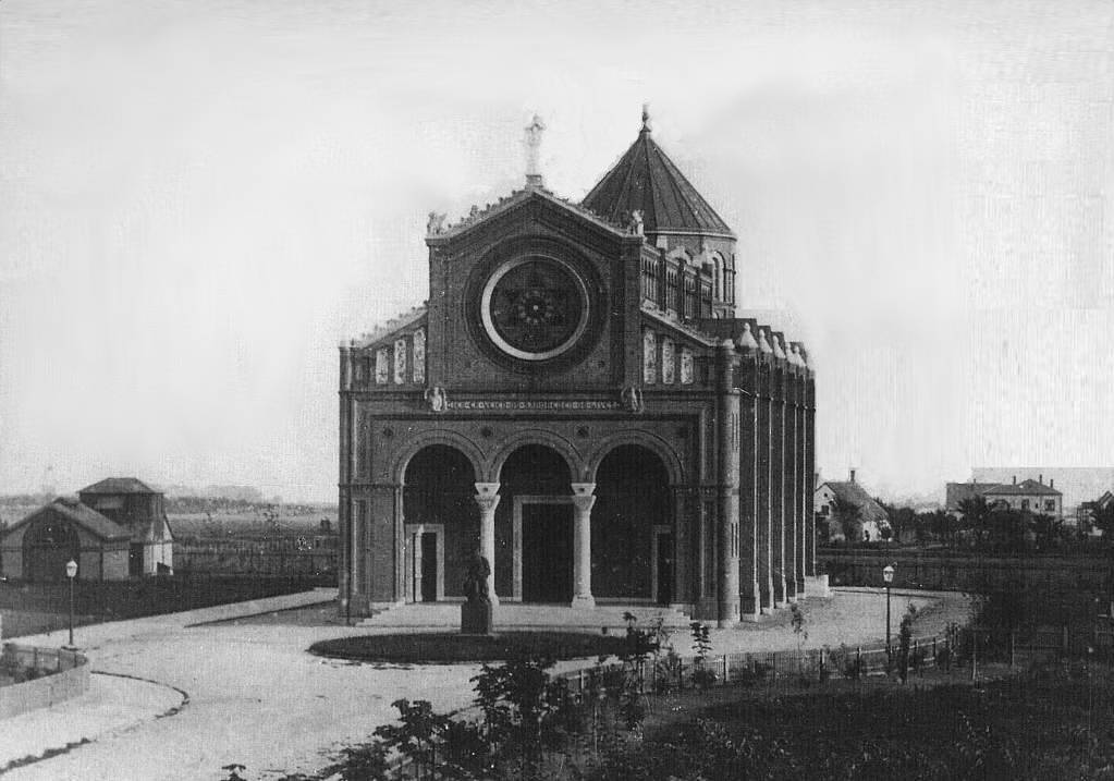 The Jesus Church in Balby, Copenhagen, Denmark. The adjacent campenile has not yeat been built.